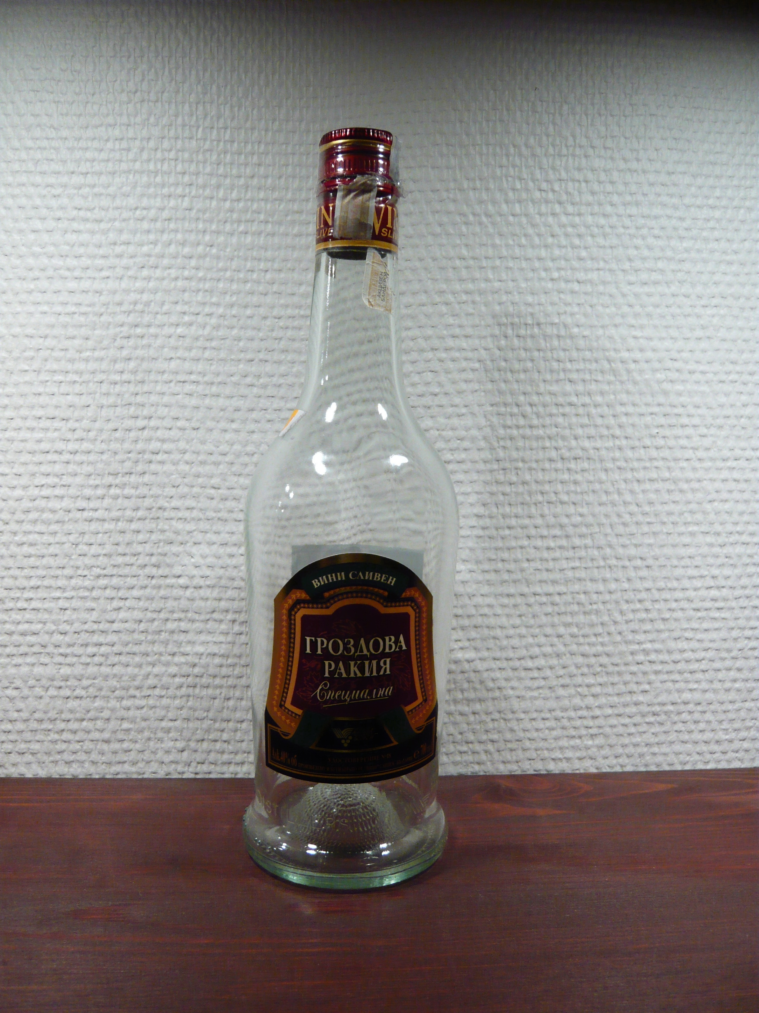 A bottle of Grozdova Rakia specialna from Bulgaria